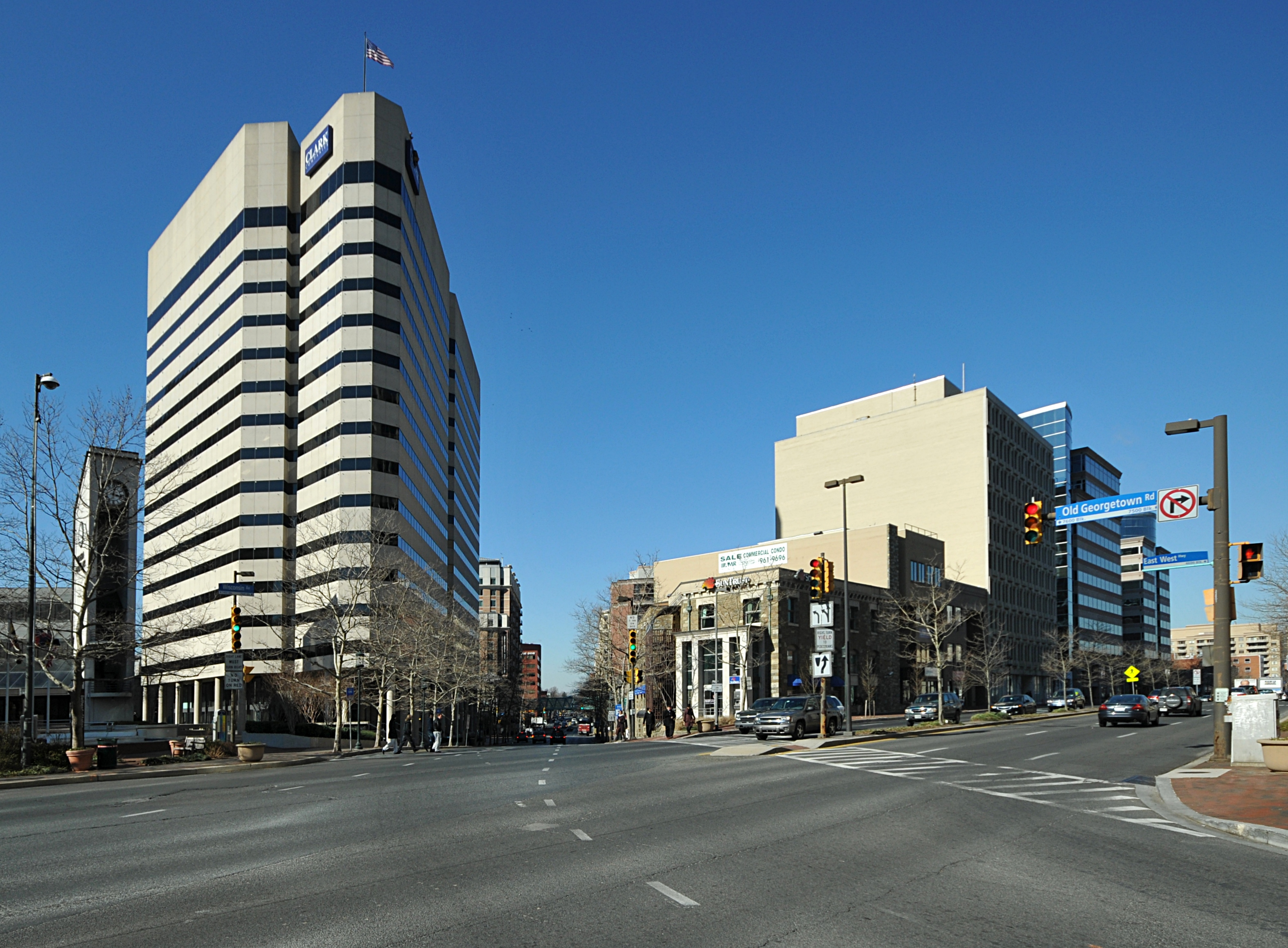 Old Georgetown Road (MD-187) at Wisconsin Avenue (MD-355) in Bethesda, MD. This is the southern end of Old Georgetown Road